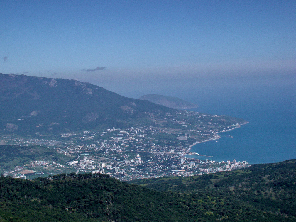 Crimea, view of the Yalta